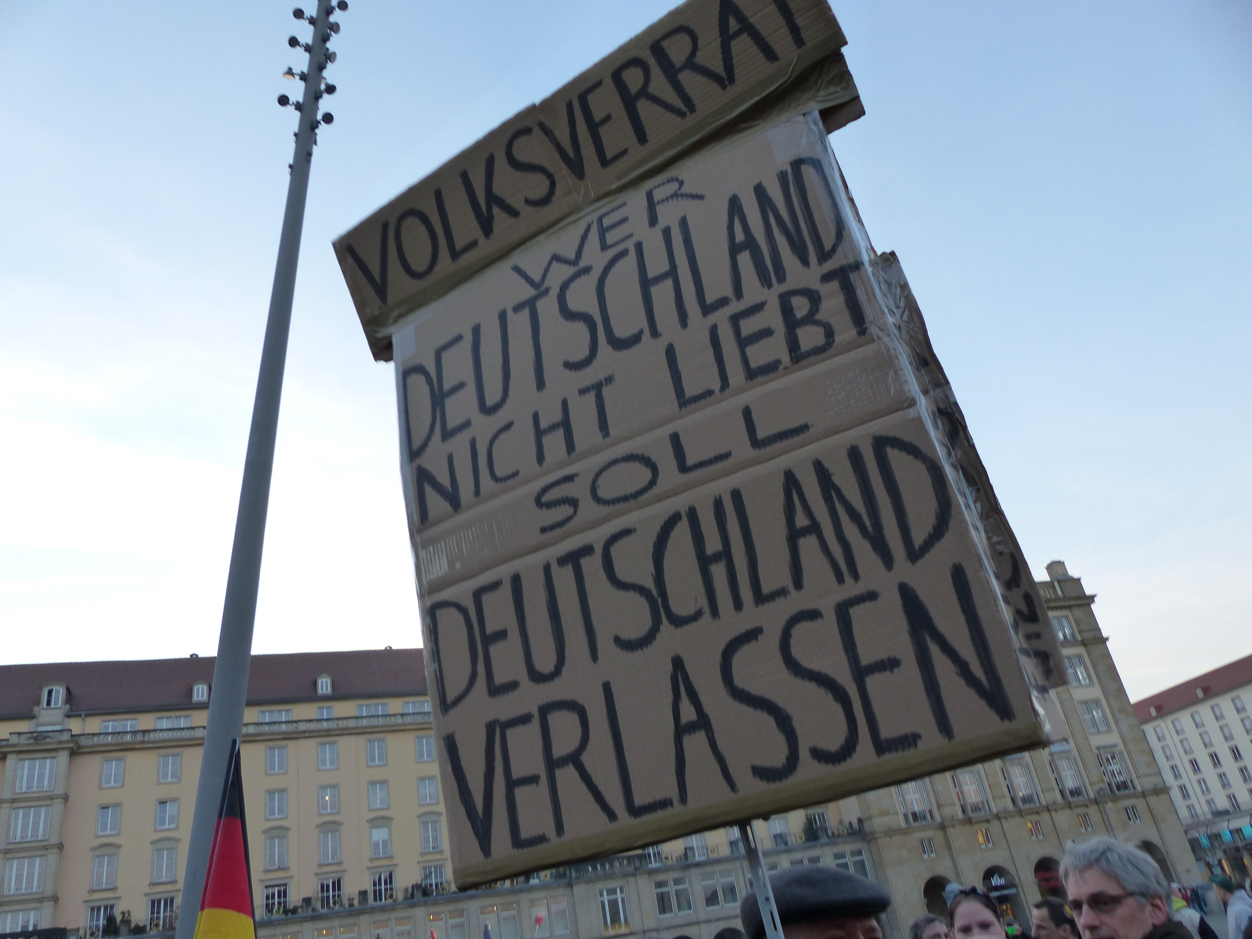 PEGIDA Demonstration Dresden 2015-03-23